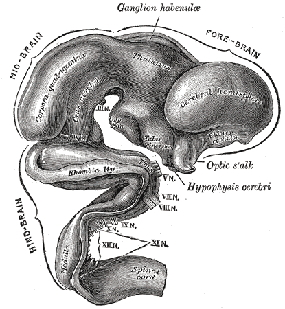 Exterior of brain of human embryo of five weeks. (From model by His.)